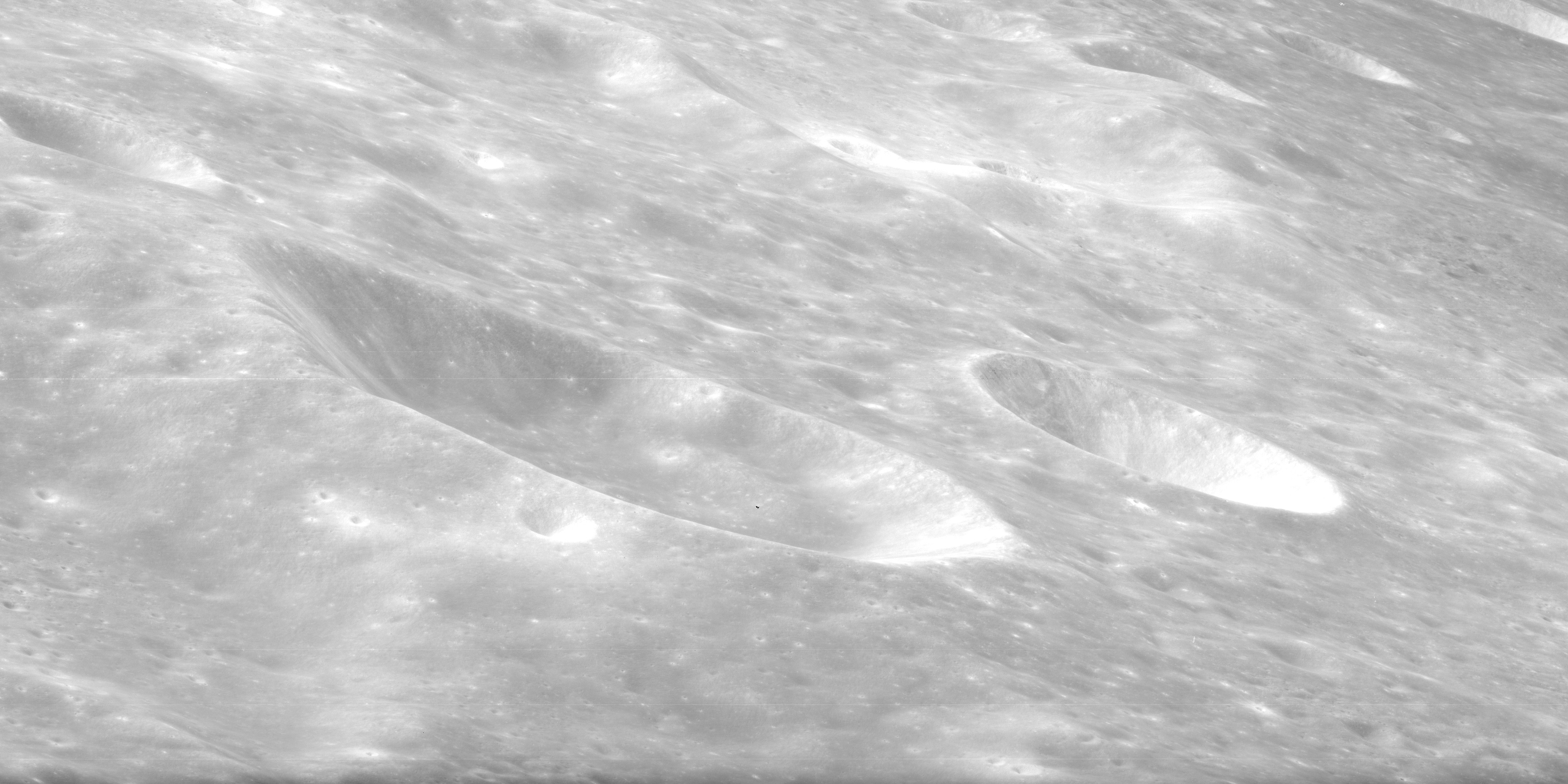 Oblique view of Fox crater (largest), and Fox A crater (right of Fox) facing west, on the far side of the moon. Taken by Apollo 17 panoramic camera.